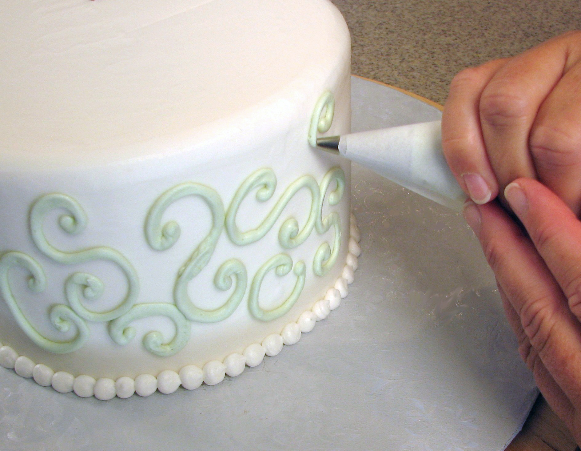 Buttercream swirls are piped onto the sides of a cake. The buttercream icing covering the cake was smoothed to a fondant-like satin finish.